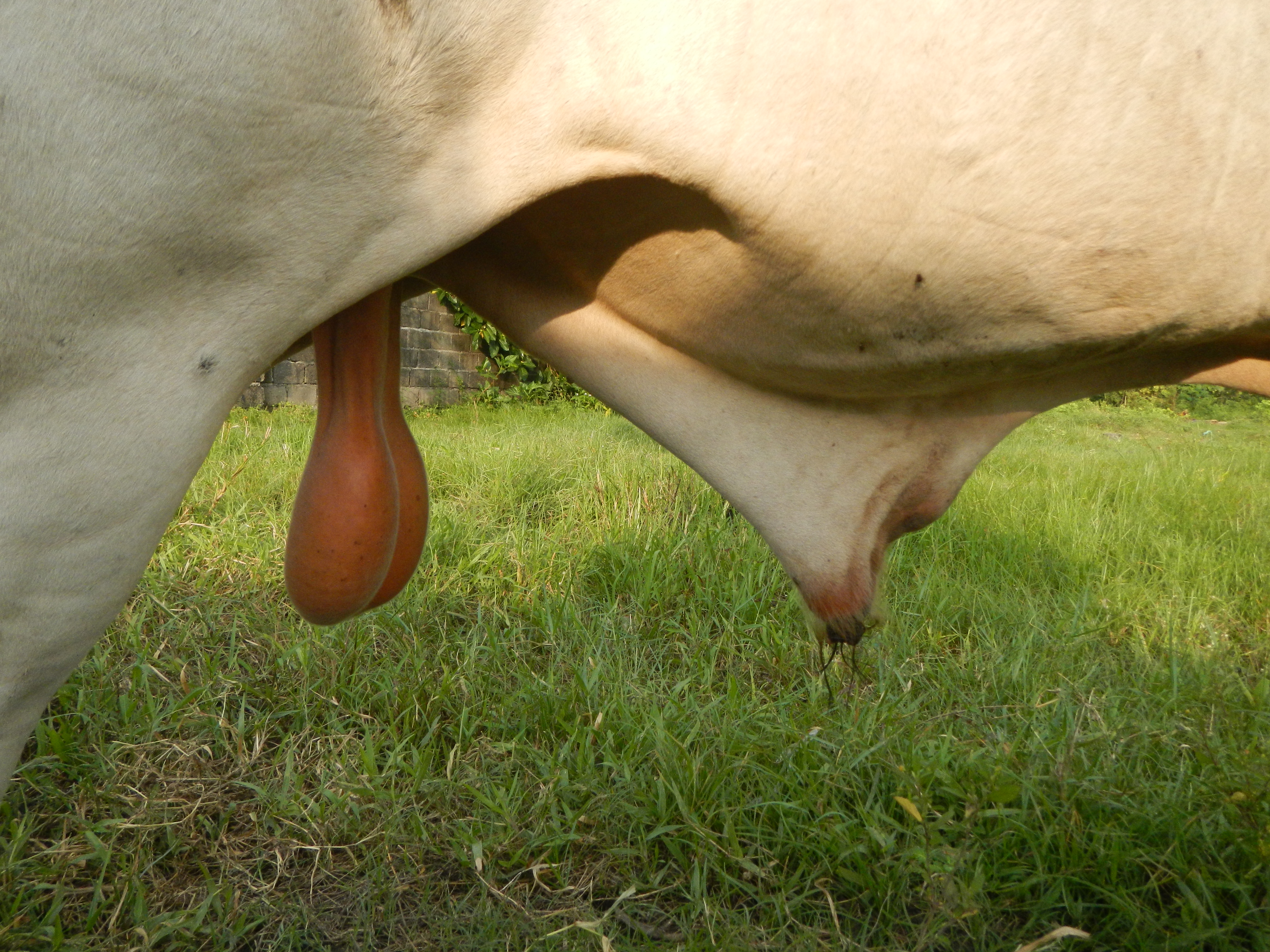 Barangay Barangay San Julian, beside Santa Maria, Moncada, Tarlac, Tarlac Province (along Paniqui, Anao and Moncada, Tarlac-Nampicuan, Nueva Ecija Arterial Road (Moncada, Tarlac section) and accessed from MacArthur Highway (Moncada, Tarlac section) of MacArthur Highway or Manila North Road, gateway to Anao, Tarlac both SCTex and TIPLex to NLEx).